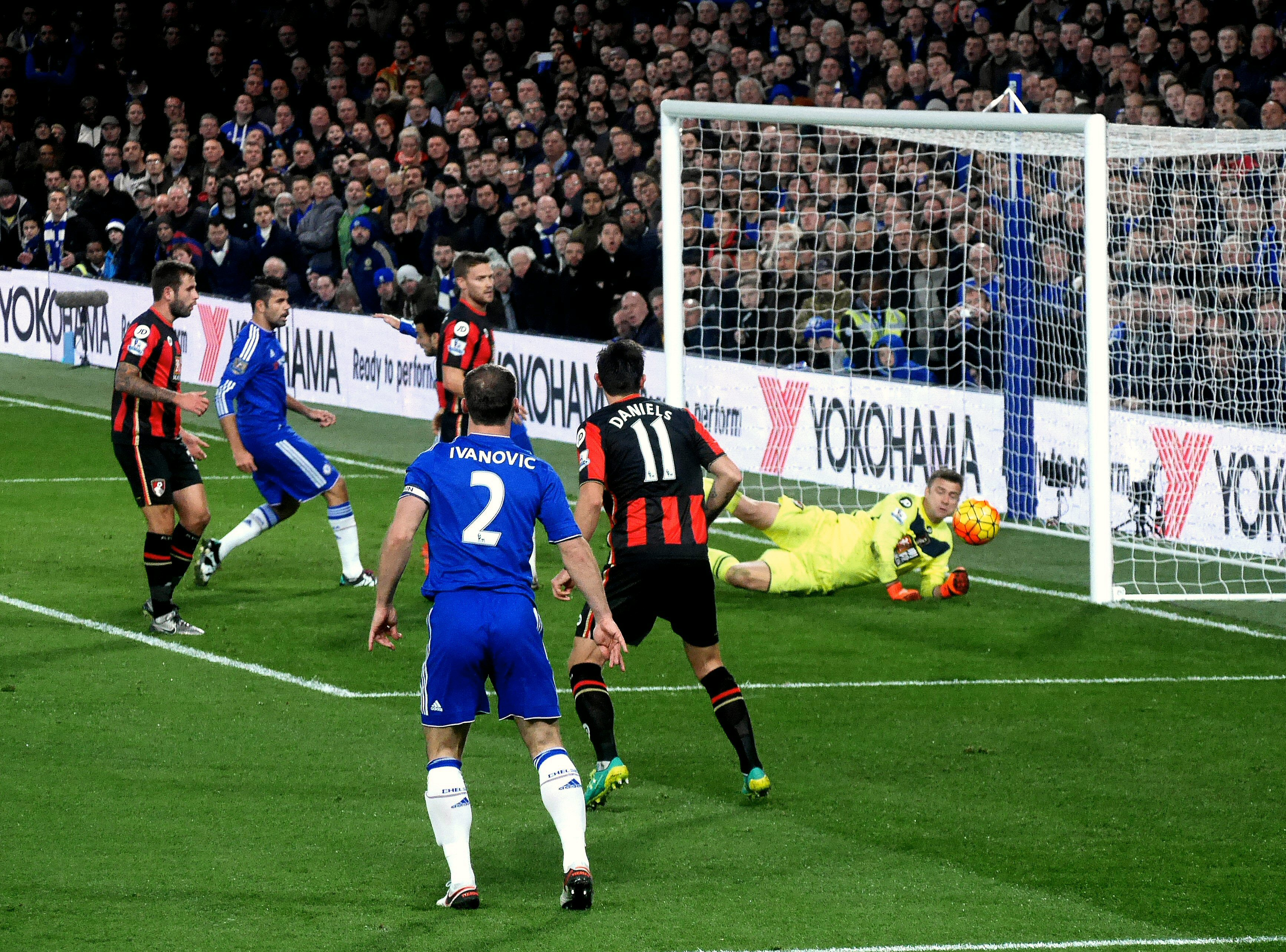 Chelsea F.C.play their last Premier League home game against Bouremouuth under manager Jose Mourinho.December 2015 Chelsea lose 1-0